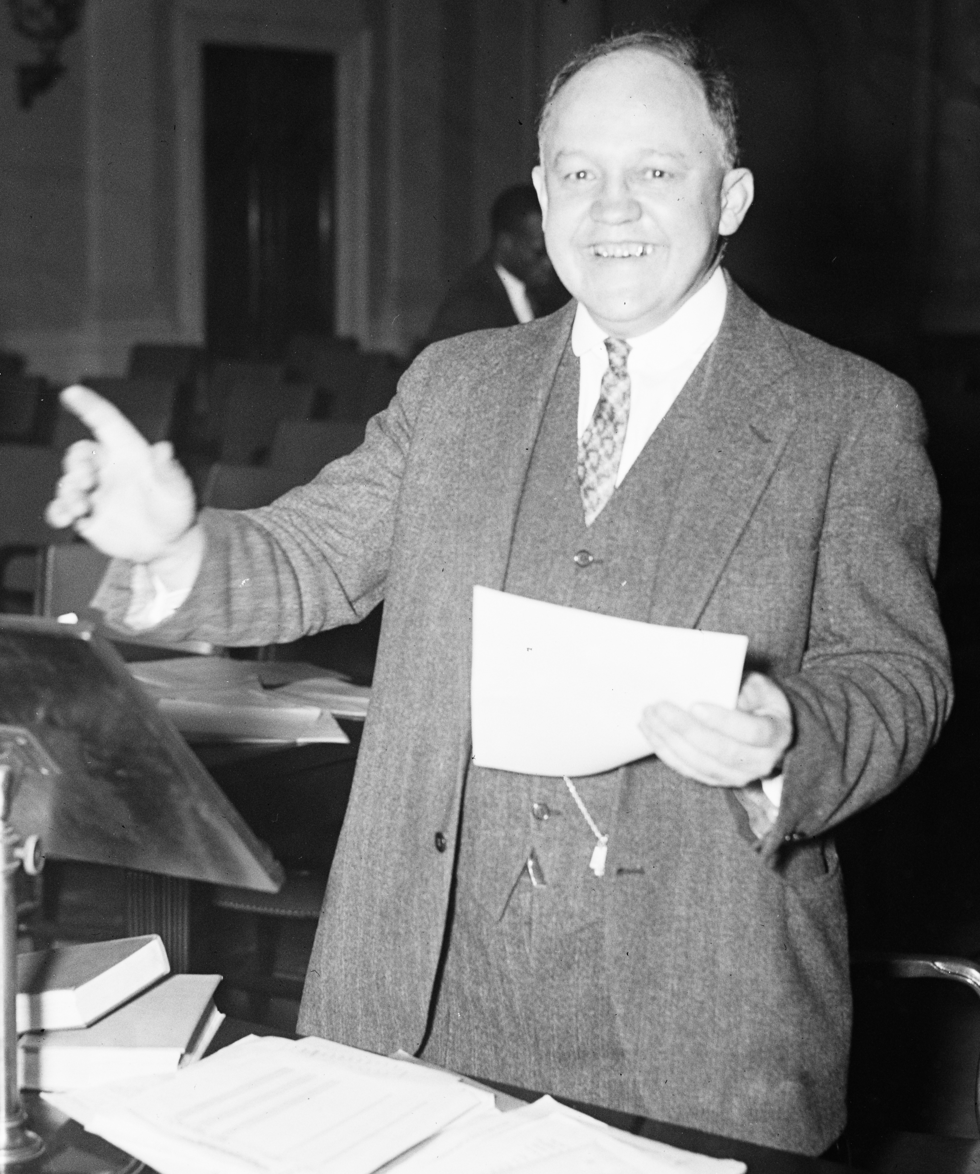 Economic Security Director. Edwin E. Witte, Executive Director of the Presidential Committee on Economic Security, explains the old age pension proposal of the president to the Ways and Means Committee of the House, 1/21/35